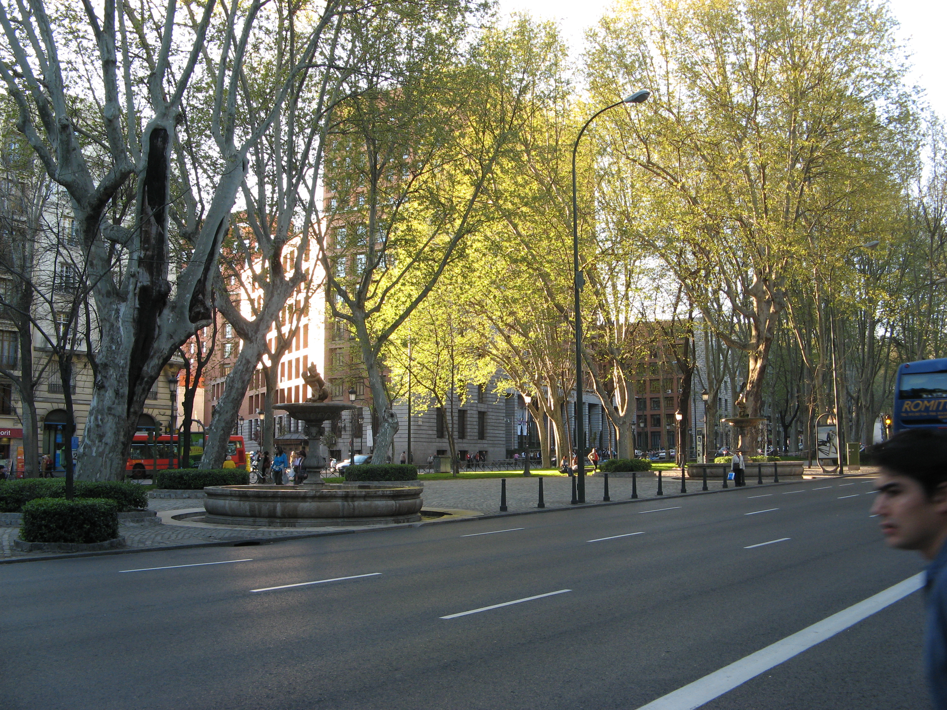 Paseo del Prado (boulevard) in Madrid (Spain).